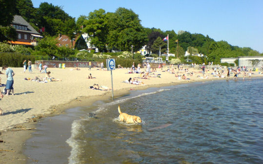 Beach at Elbe river at Övelgönne in Ottensen, Germany